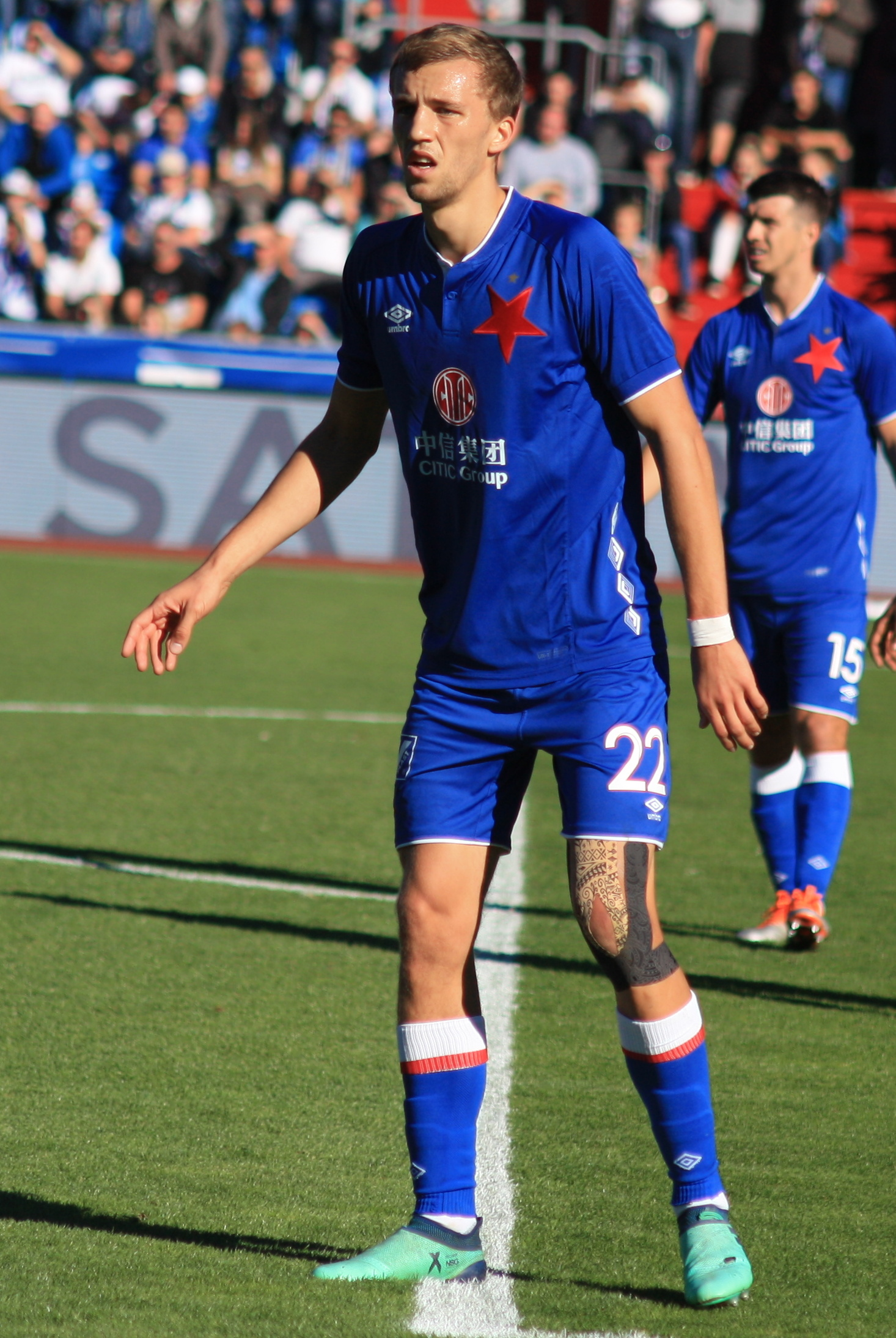 Tomáš Souček At Czech First League (Fortuna Liga) match FC Baník Ostrava-SK Slavia Praha played on 30. 9. 2018